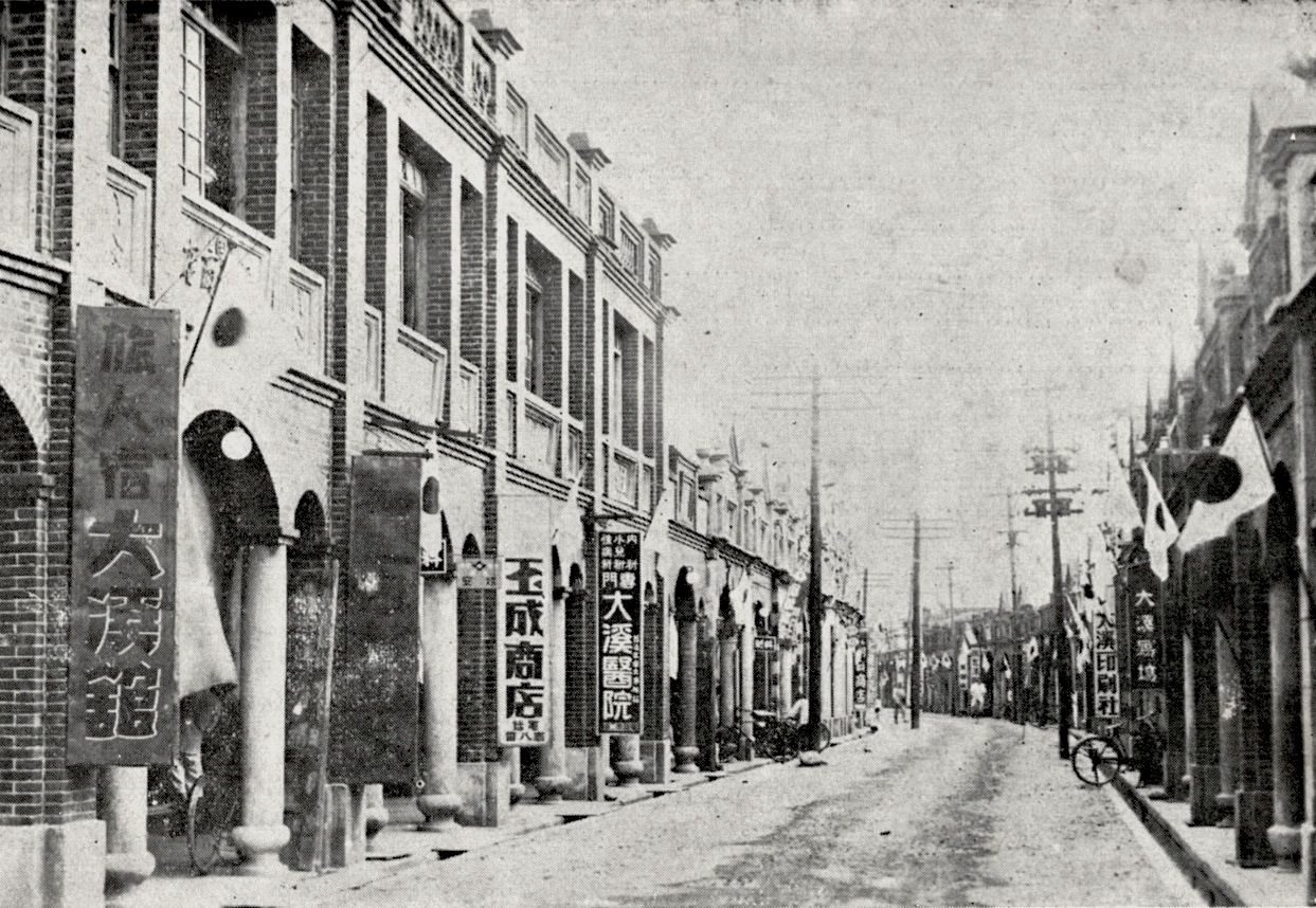 Town street of Taikei